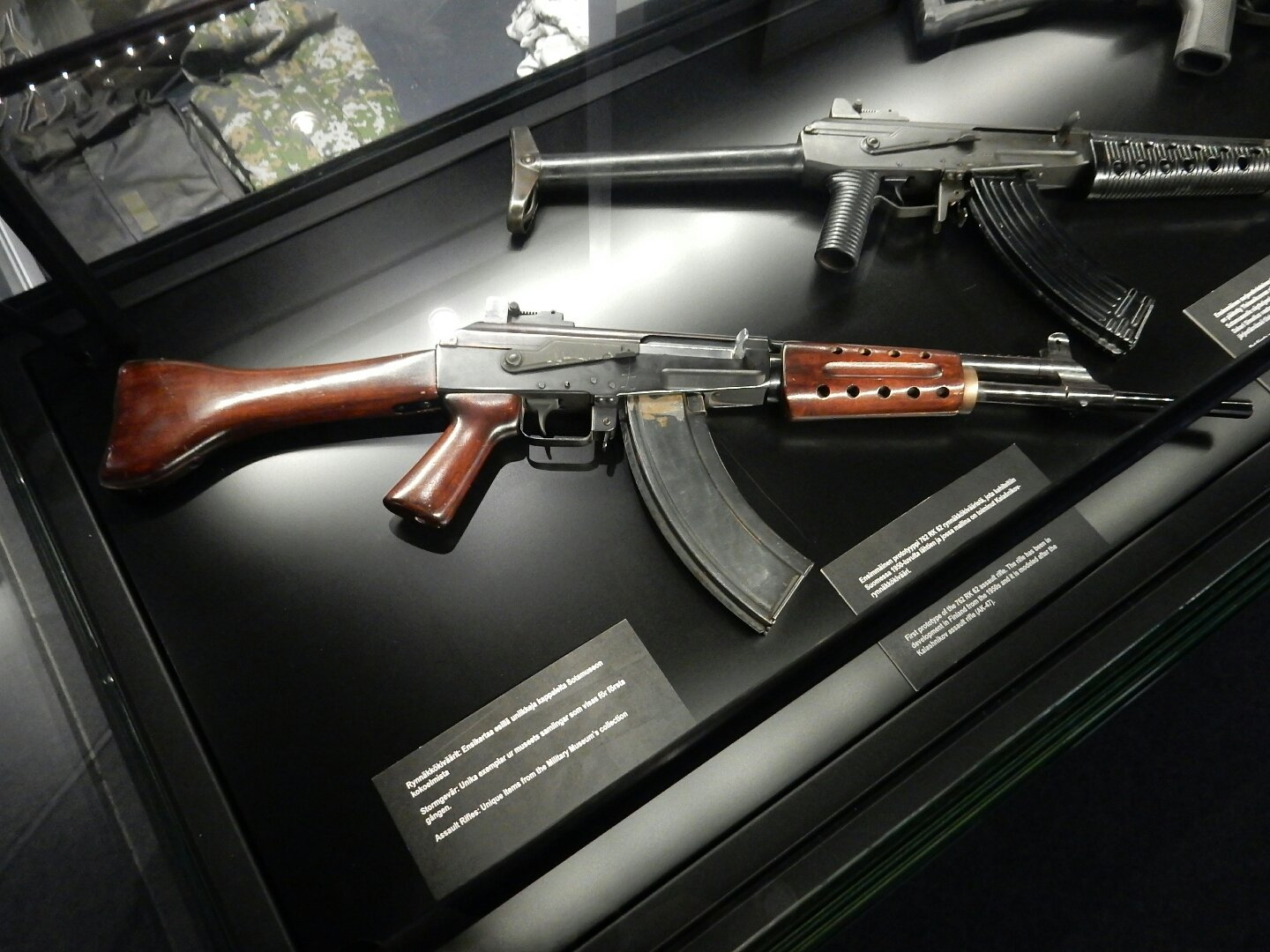 Valmet M/58